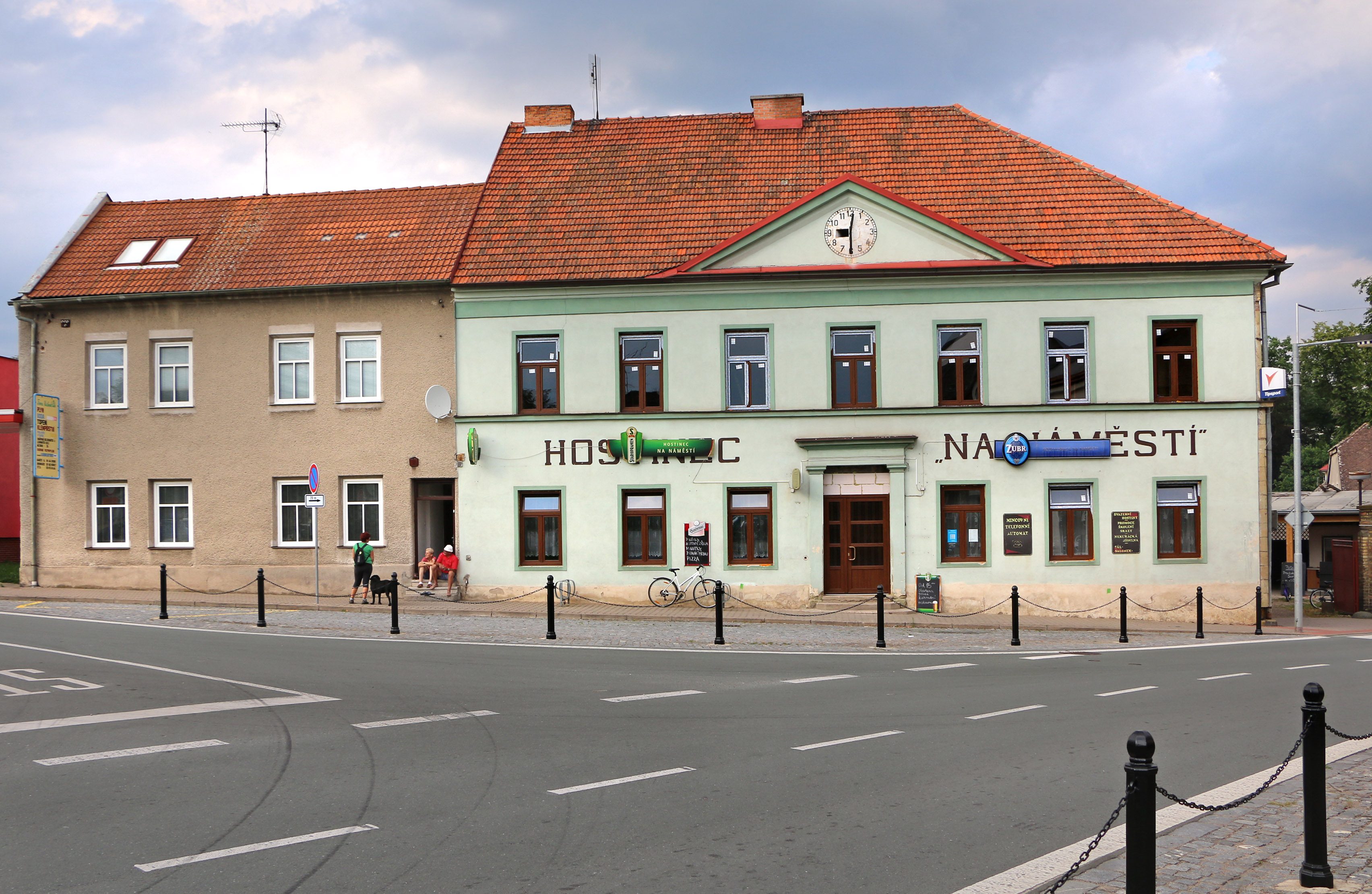 Restaurant at Náměstí square in Borohrádek, Czech Republic.